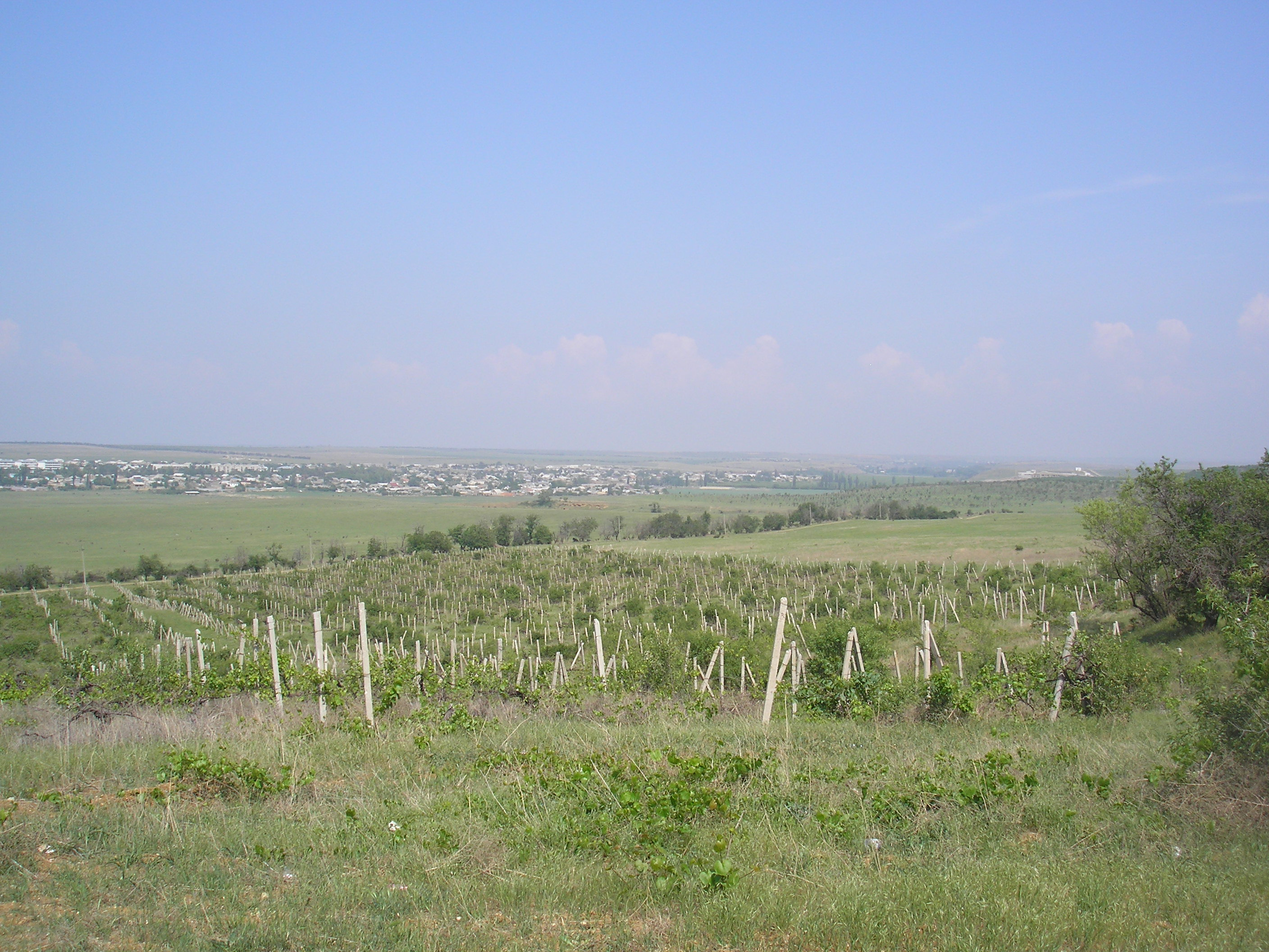 village Vilino, Bakhchisaray district, Crimea